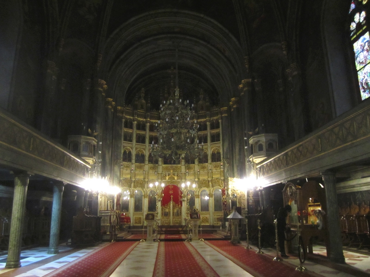 Saint Spyridon the New Church, Bucharest RomaniaRomână: Biserica Sfantul Spiridon Nou Bucuresti Romania